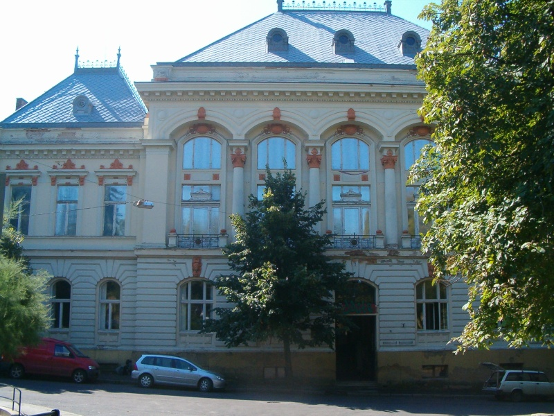 Csontváry Museum Native nameCsontváry MúzeumLocationPécsCoordinates46° 4′ 38.71″ N, 18° 13′ 30.19″ E Established1973Website